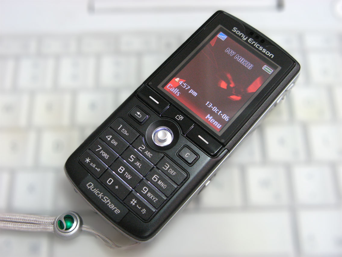 My third mobile phone - Sony Ericsson K750i. Read more